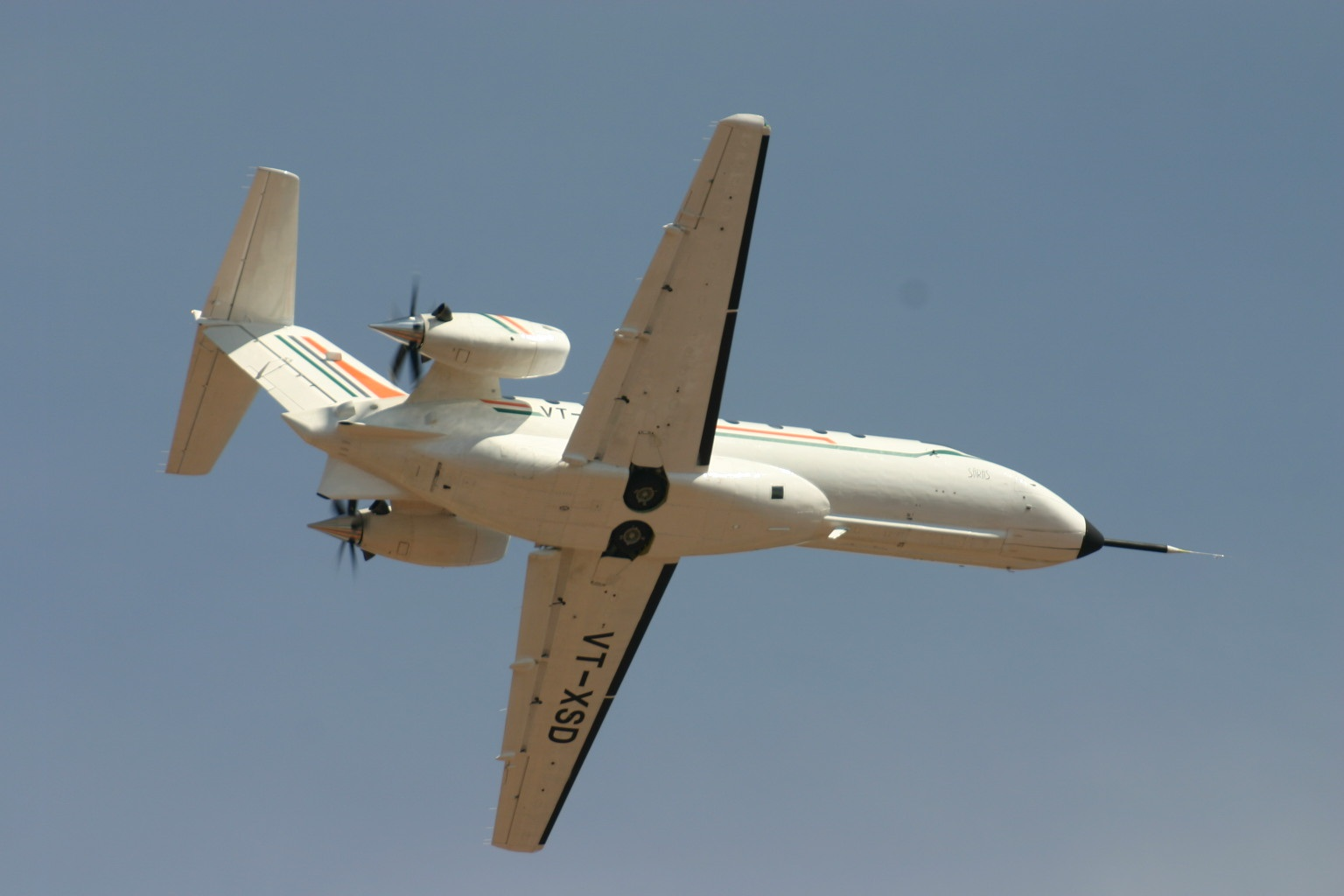 At Bangalore Yelahanka Air Force Base